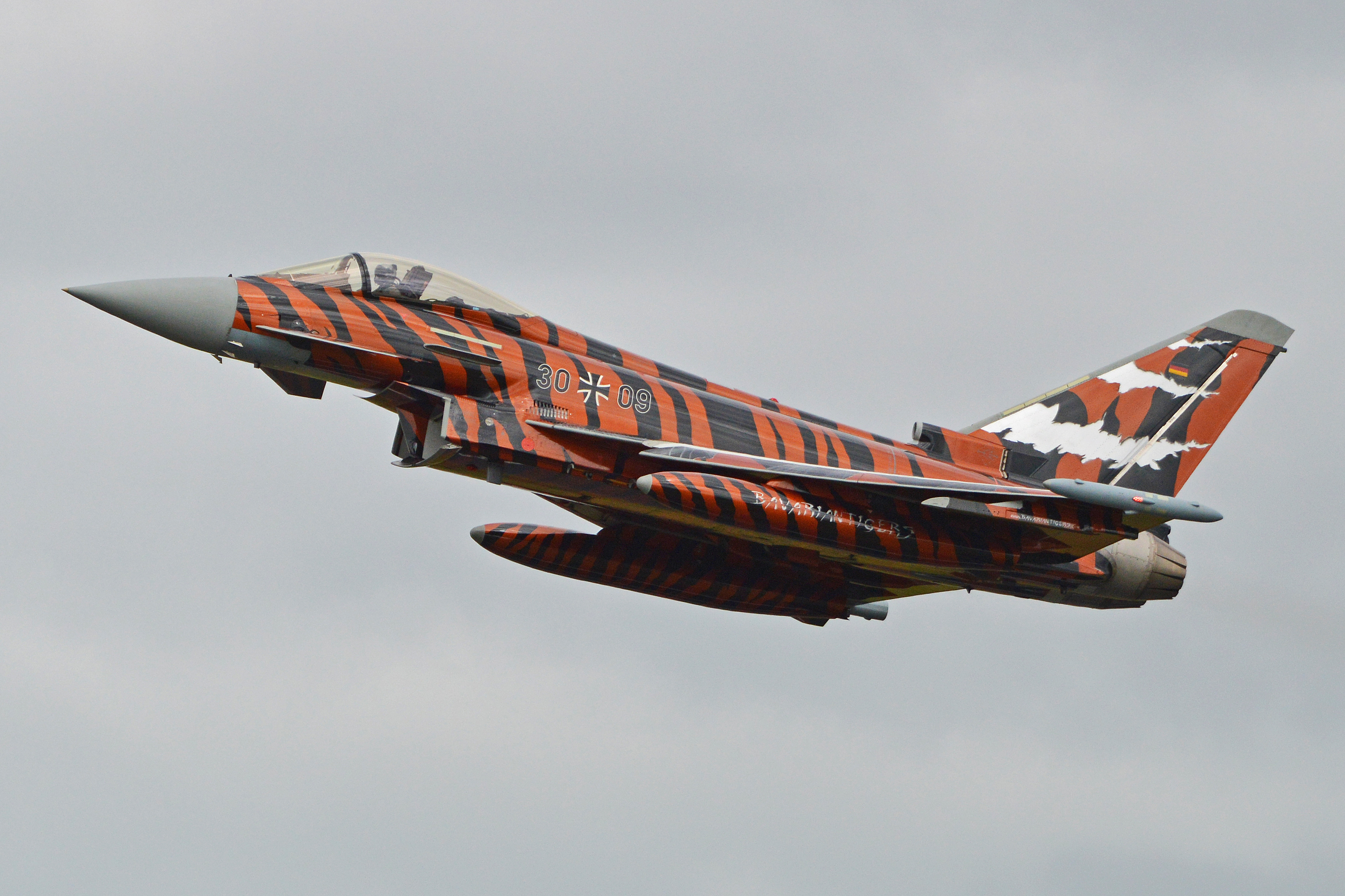 Now THAT'S a tiger scheme!! Undoubted star of the 2014 Tiger-meet was this German Typhoon in a full, wrap-around, tiger marks. Operated by JG-74, German Air Force and based at Neuburg. c/n 048, l/n GS004. Seen departing Schleswig-Jagel Airfield in Northern Germany during the 2014 NATO Tiger-meet. 23-6-2014